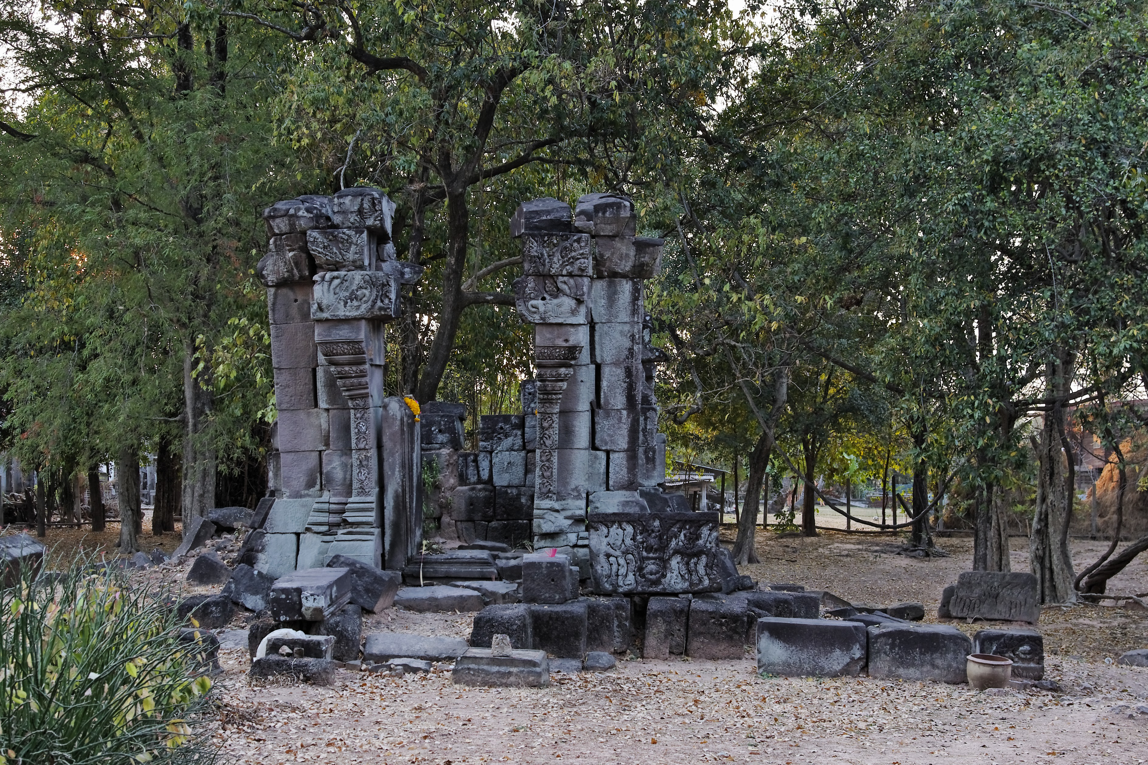 Prasat ta Leng, Thailand